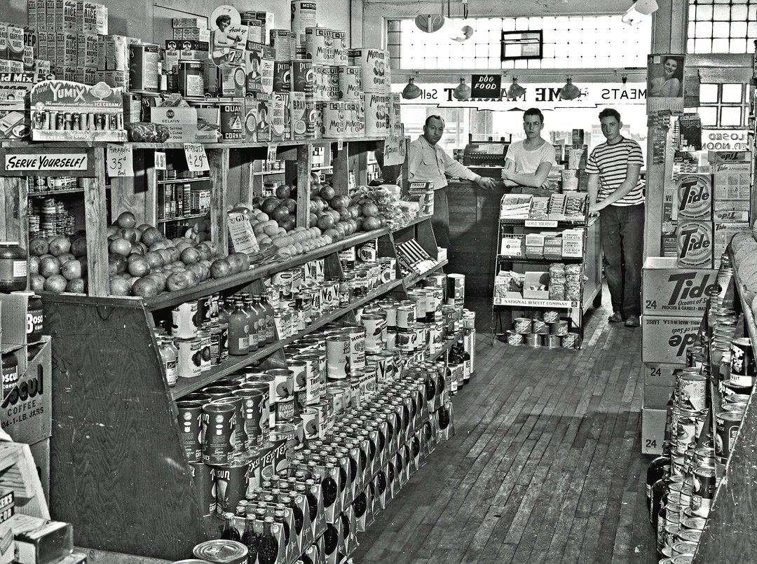 The Home Market was on High Street in Worthington, Ohio. I took this photo for the Worthington News to illustrate an article about the recent expansion and remodeling. In the photo is owner Clyde Bachelor with sons Don and Dave. "I typed this info on the negative envelope I just found; "W. News-Home Market-Spring 1947-Speed Graphic, Super Panchro Press-F22." I used two flash bulbs."